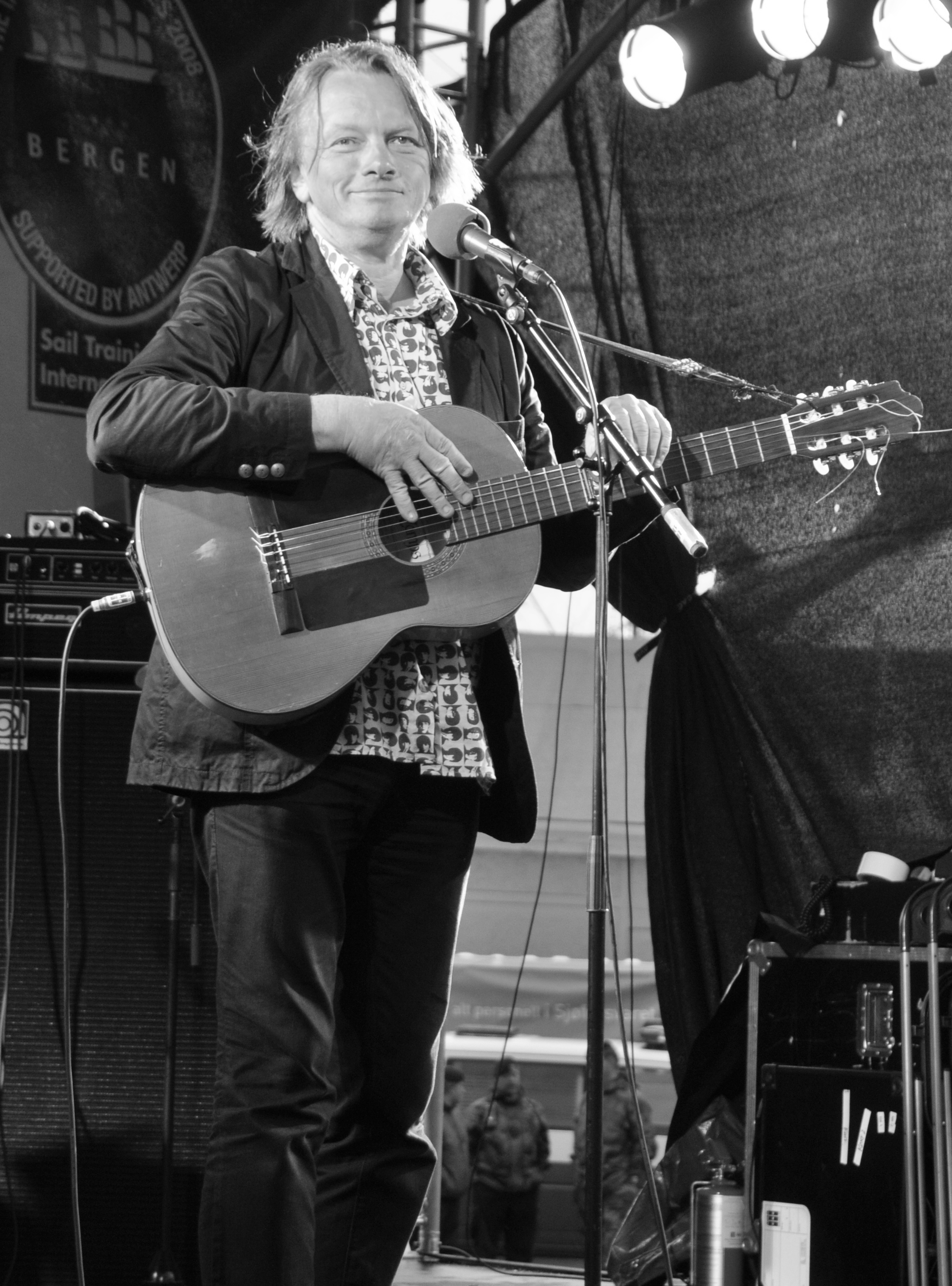 Picture of Jan Eggum from an outdoor concert in Bergen, Norway.